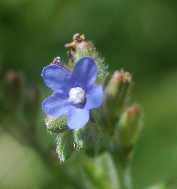 Anchusa sp., flower